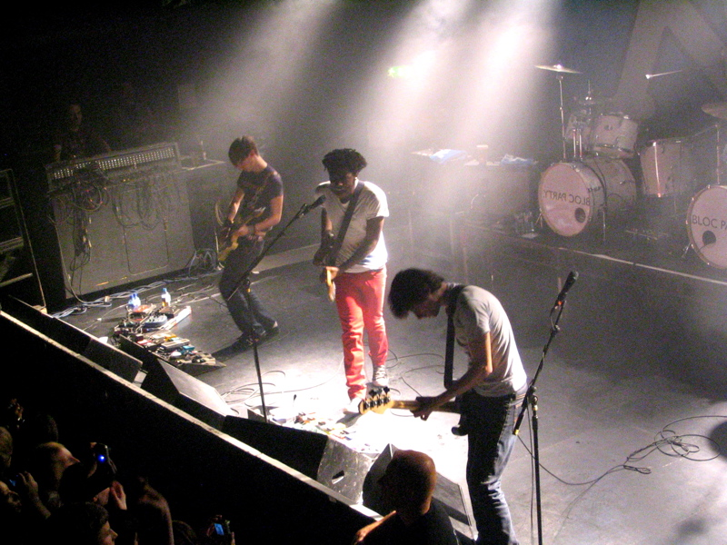 Bloc Party at the Mean Fiddler, Charing Cross, London, UK in January 2006.